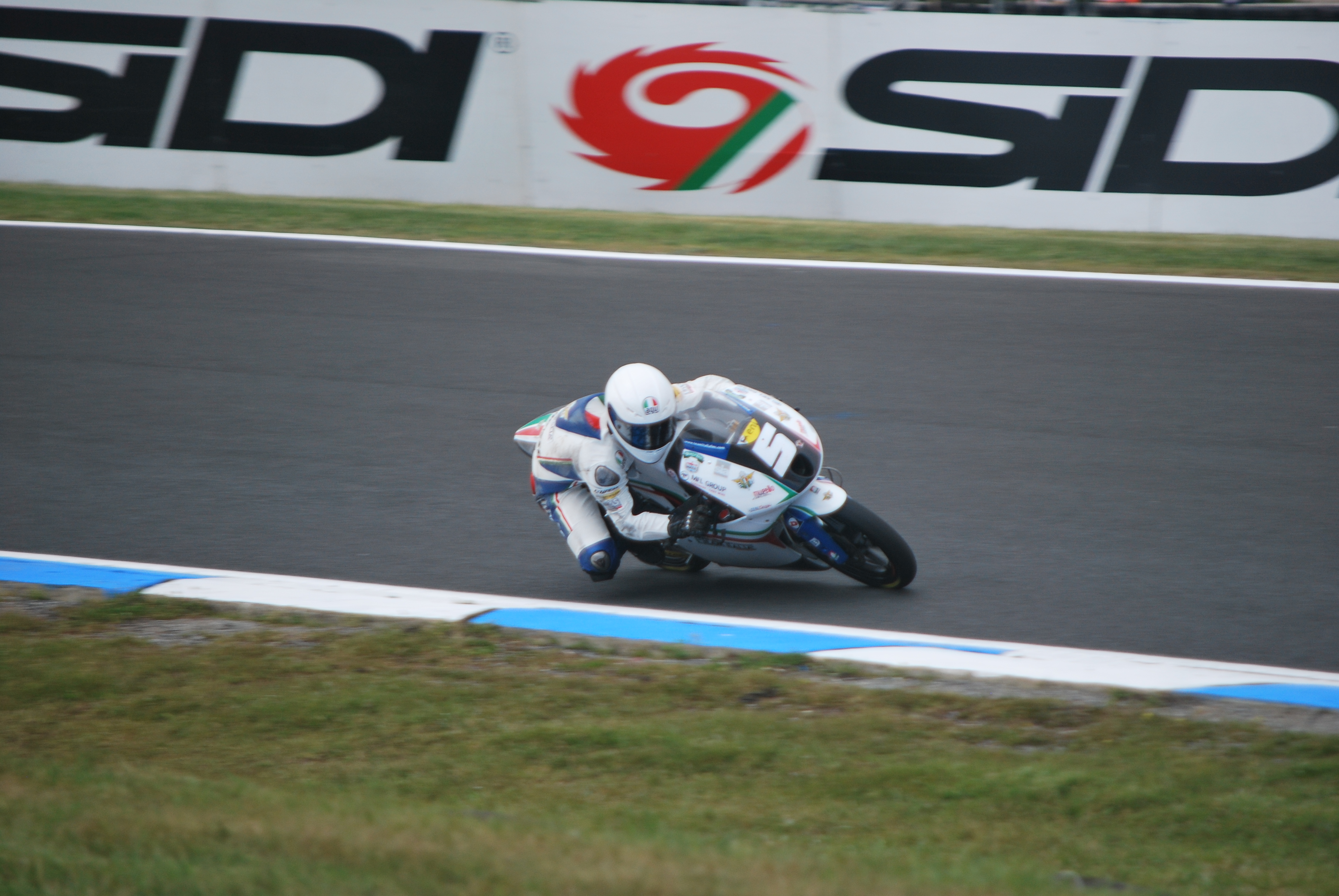 Fenati at the 2012 Australian Grand Prix.